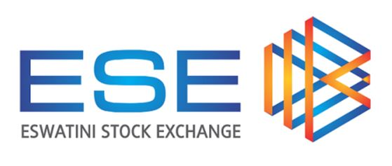 Eswatini Stock Exchange